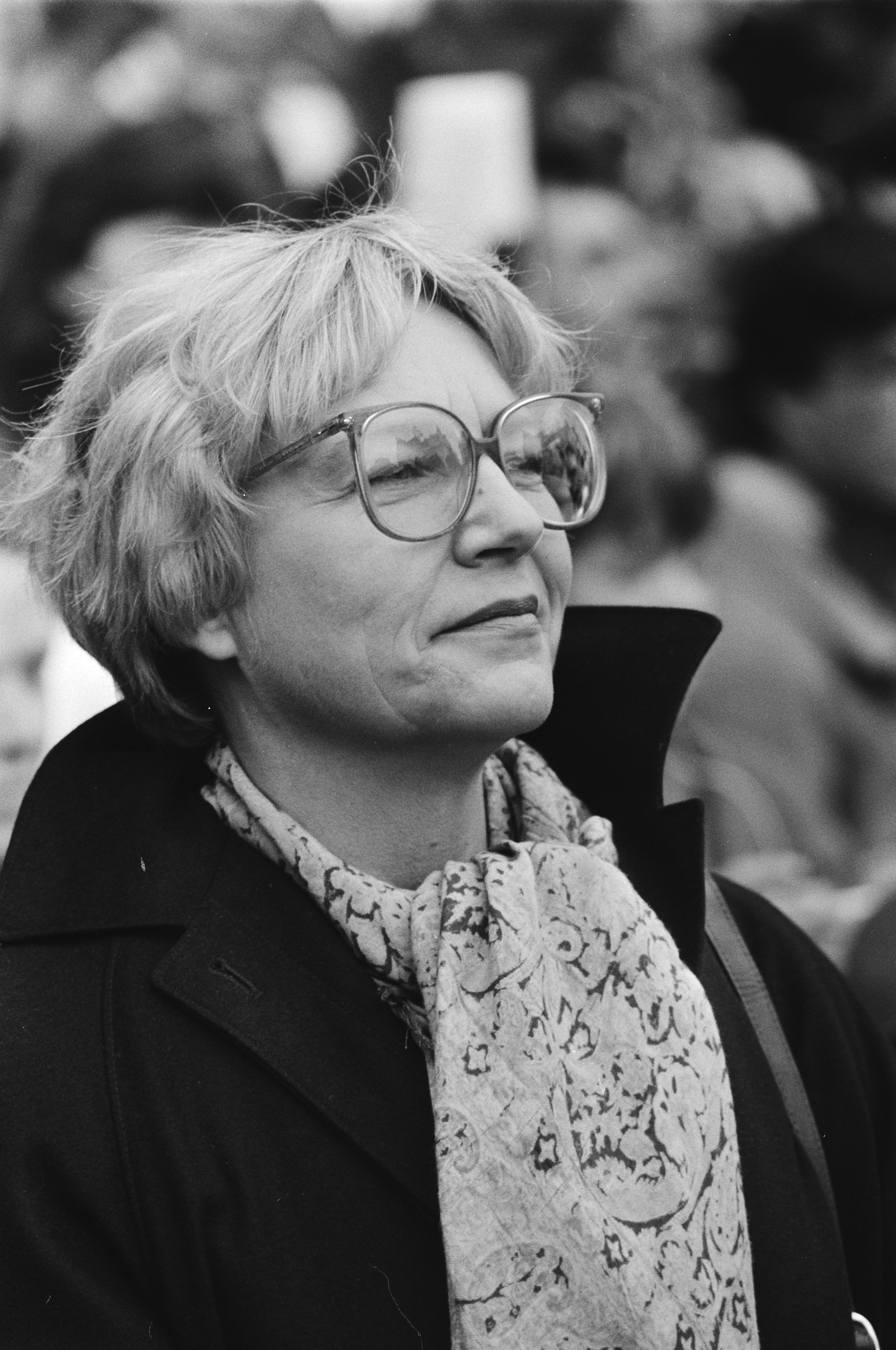 Annet Nieuwenhuyzen in Amsterdam, 13 November 1982